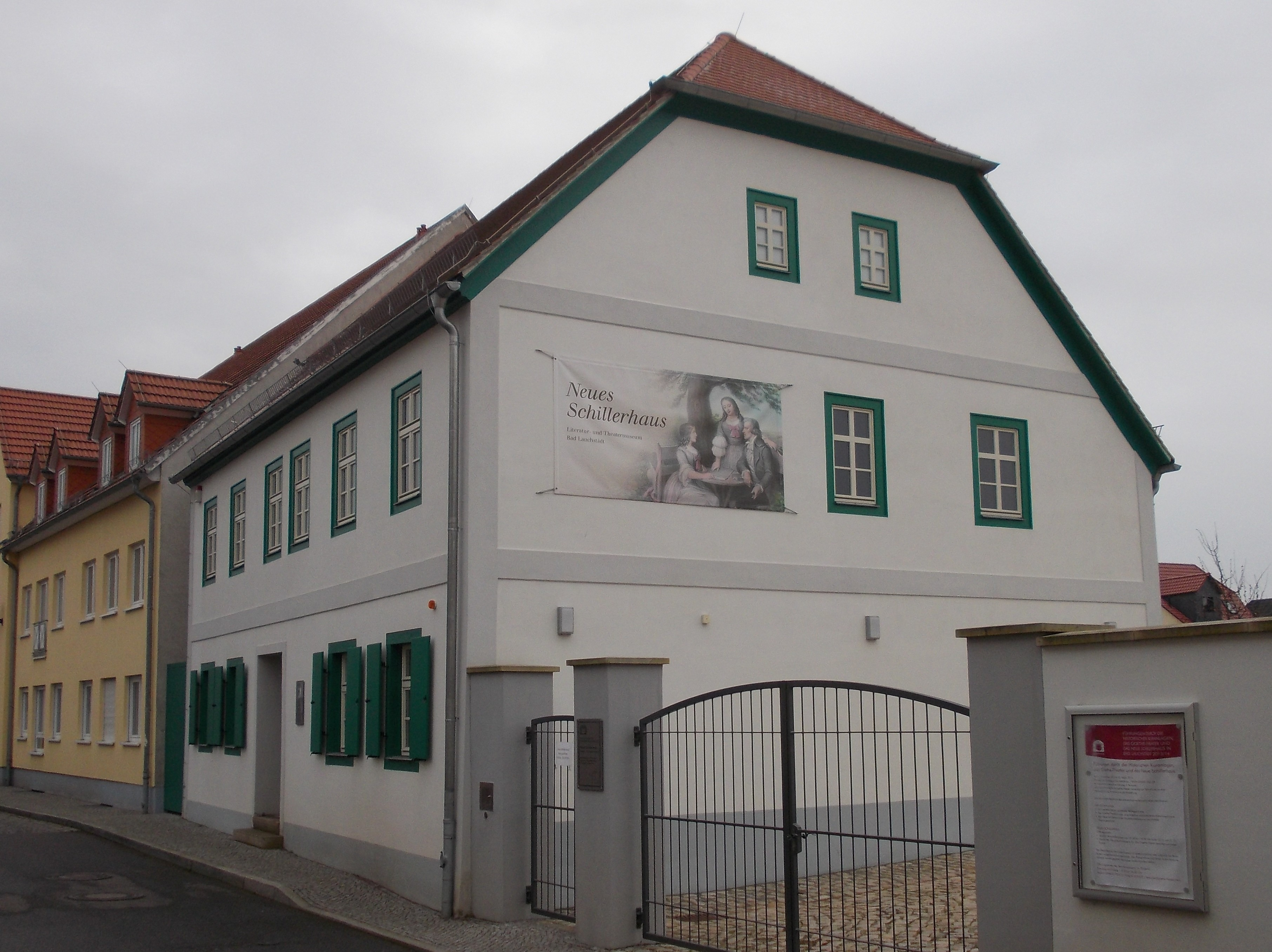 New Schiller House in Bad Lauchstädt (Saalekreis, Saxony-Anhalt)